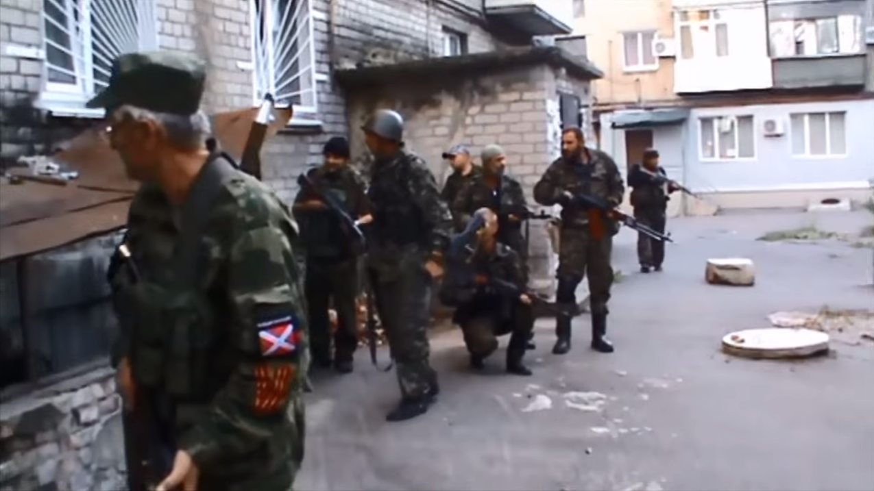 DPR "Motorola's Division" troops in Ilovaisk, checking up on civilians near a cellar.